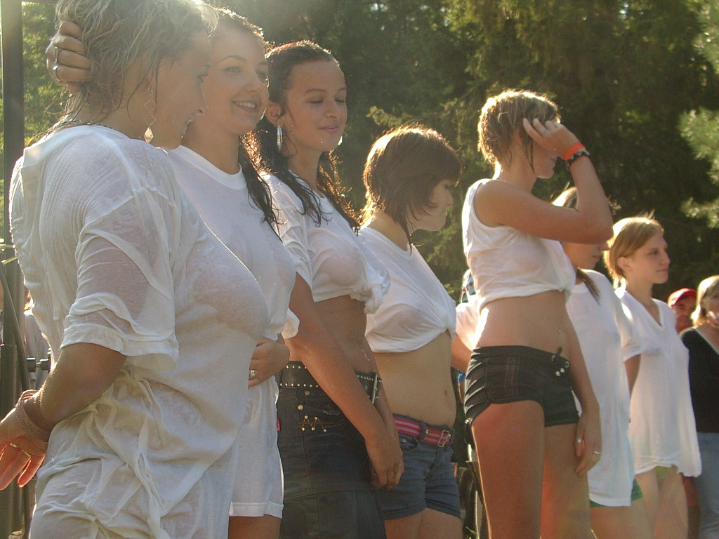 Wet T-shirt contest, Bikini Party 2009, Morsko (Poland).